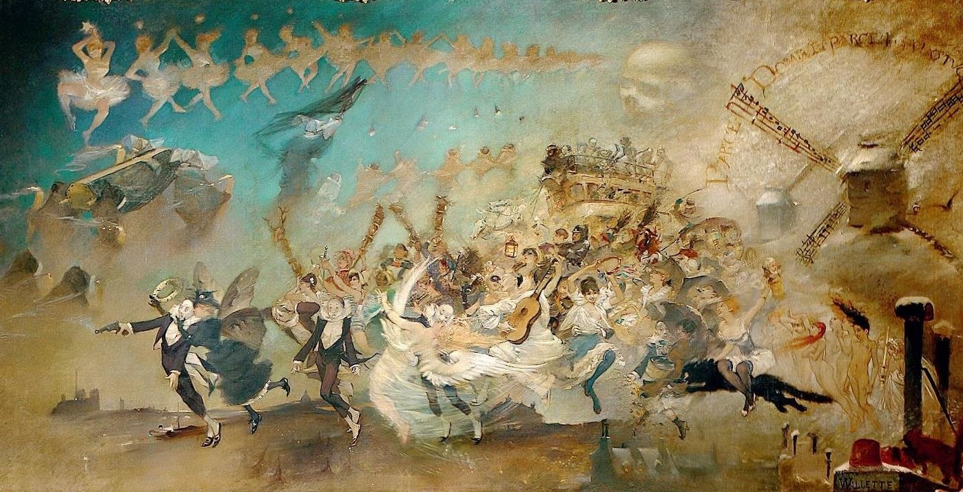 Parce Domine - decoration for the cabaret 'Le Chat Noir' by Adolphe Willette